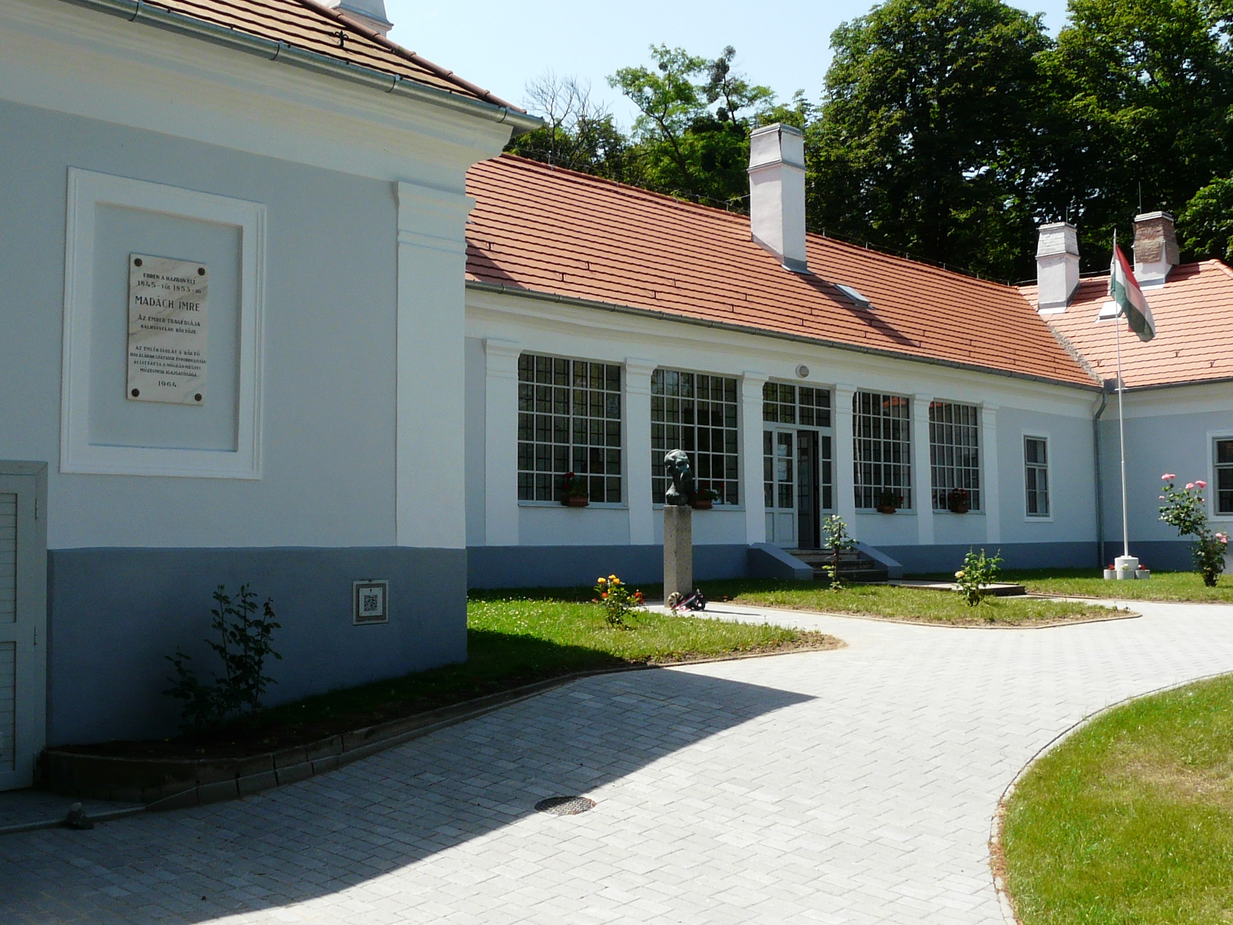 Imre Madách Memorial Museum in Csesztve, Hungary